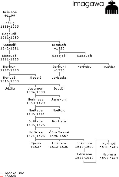 Family tree of Imagawa Yoshimoto